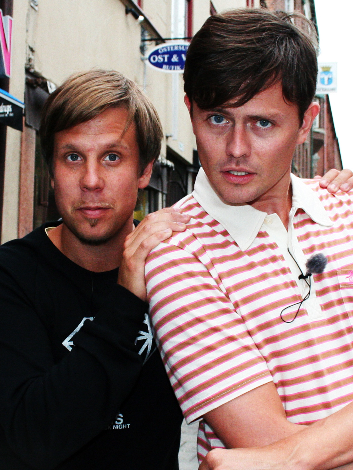 The swedish comic duo Filip & Fredrik